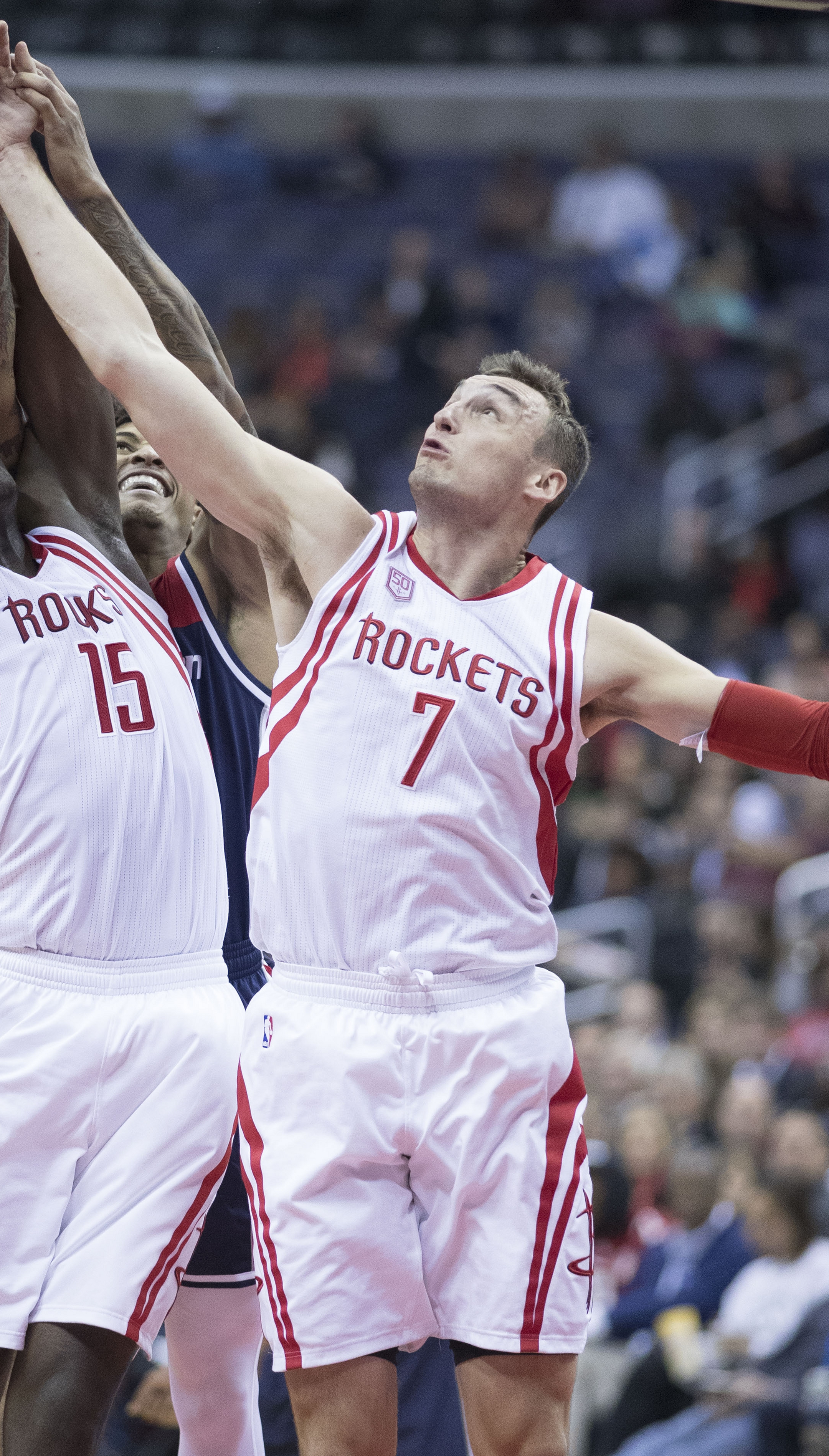 Sam Dekker during a Houston Rockets game versus the Washington Wizards in 2016.